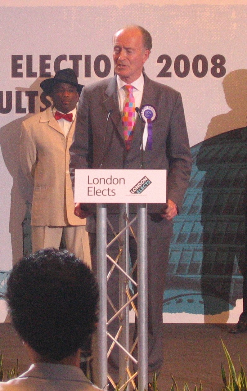 Cropped version of (Alan Craig)